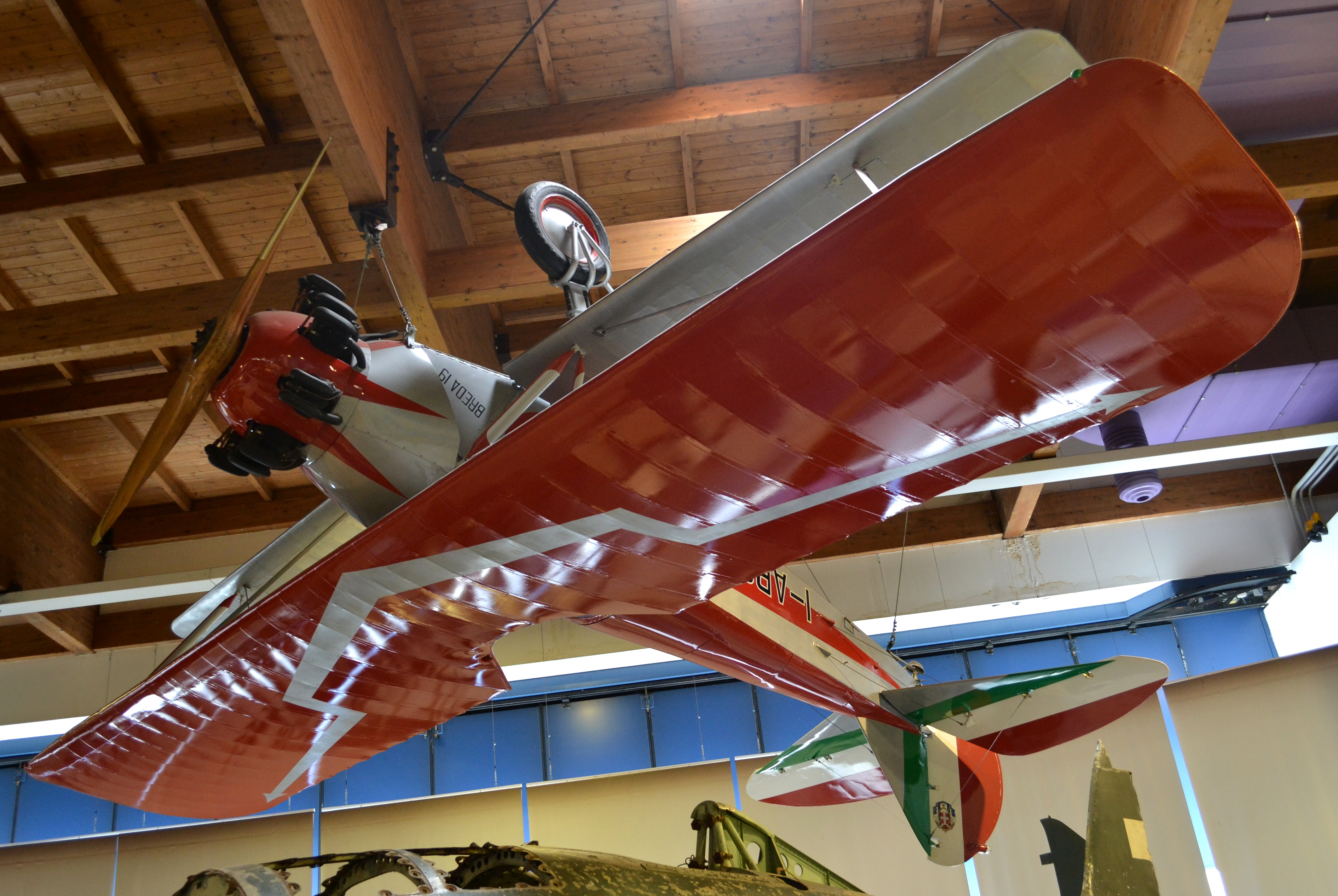 Breda Ba.19 Italian aerobatic and training biplane from the 1930s. Original aircraft on display at the Gianni Caproni Museum of Aeronautics in Trento, Italy.